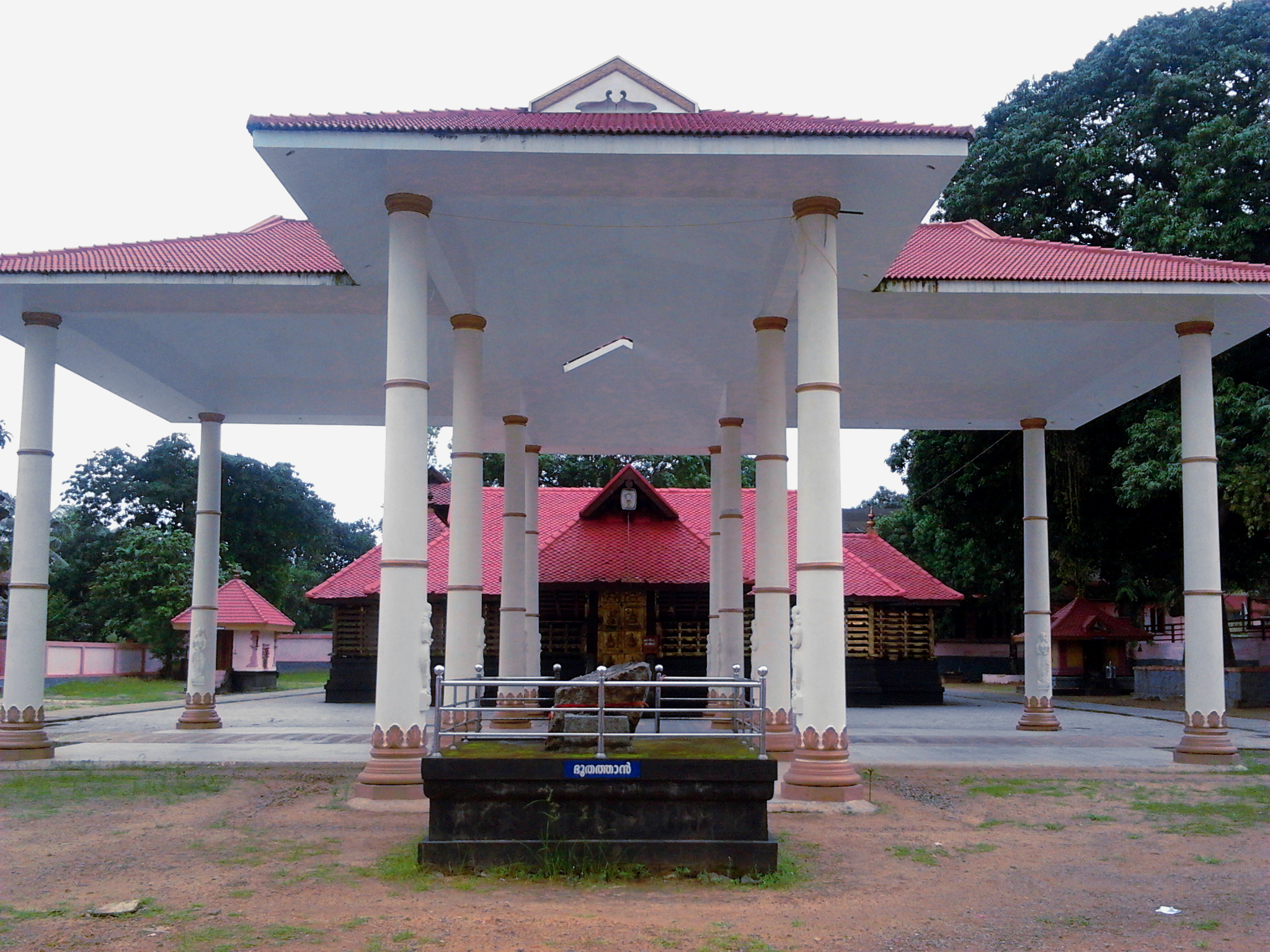 Thalavoor Thrikkonnamarkodu Durga Devi Temple